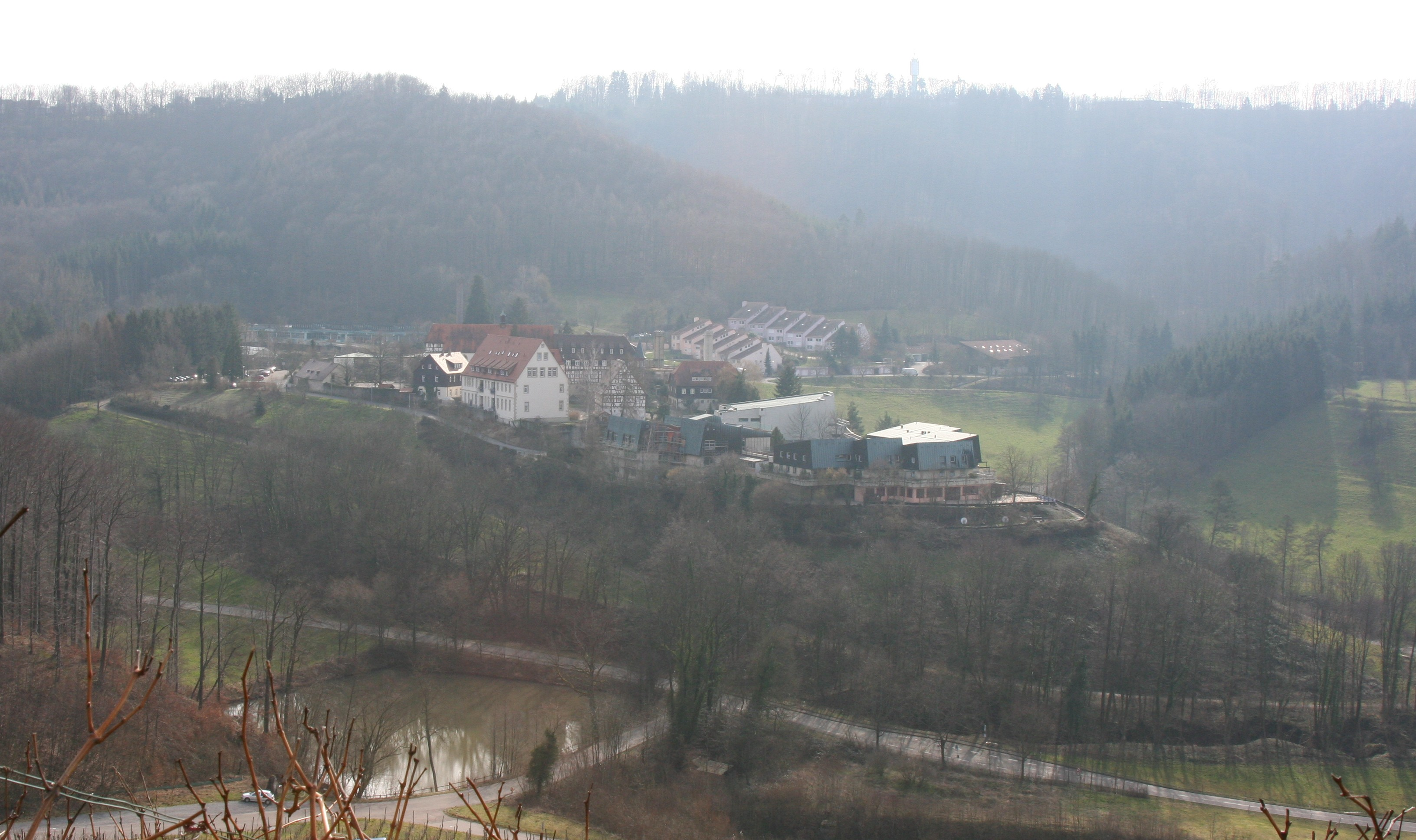 The former Cistercian nunnery in Löwenstein-Lichtenstern